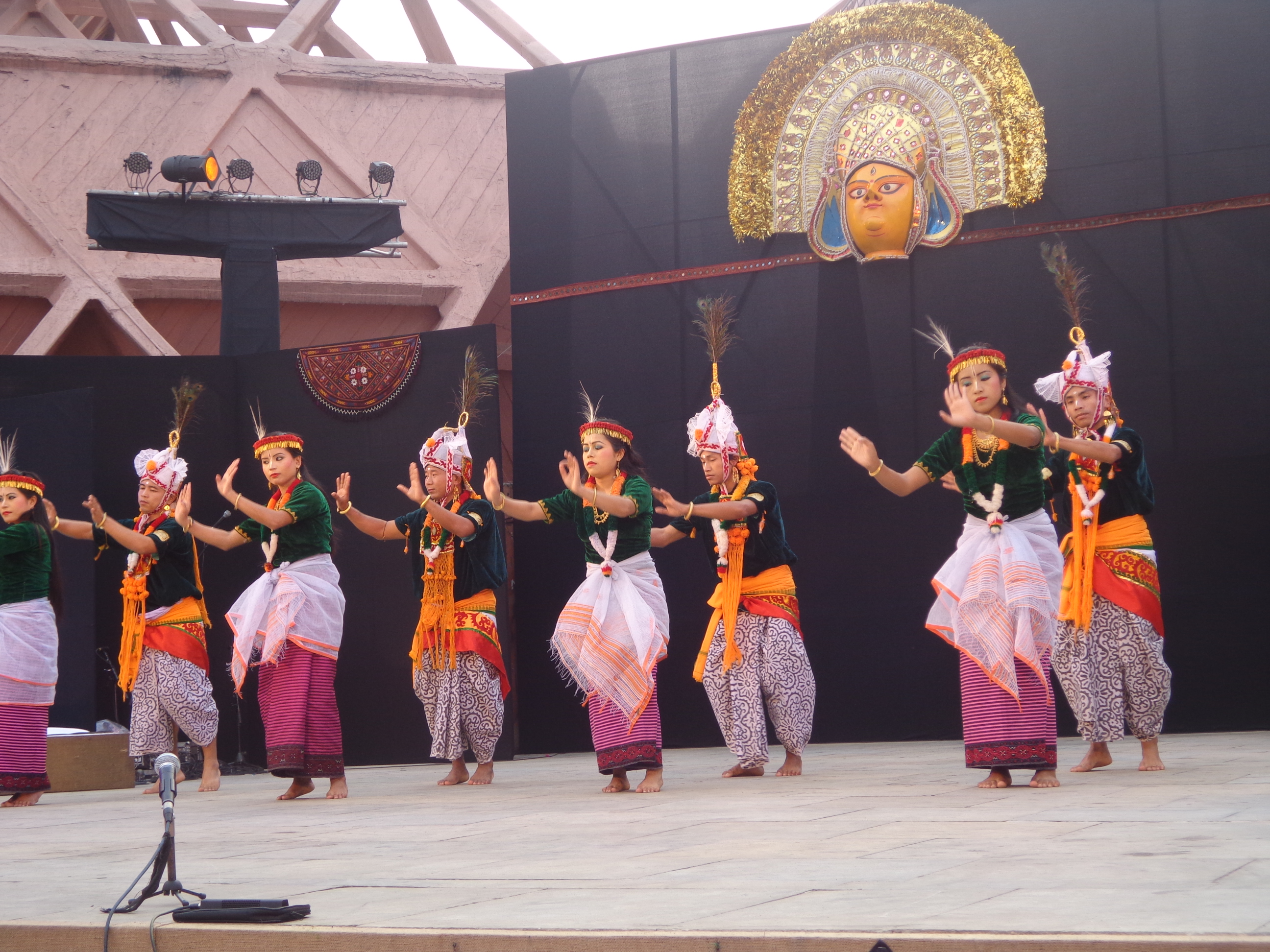 Lai Haroaba Manipur festival dance folk dance of manipur